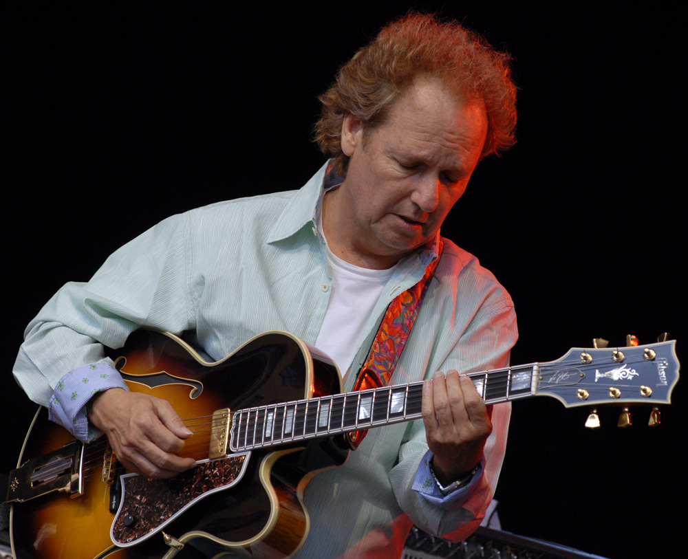 Lee Ritenour performing at Stockholm JazzFest09 Gibson Lee Ritenour L-5